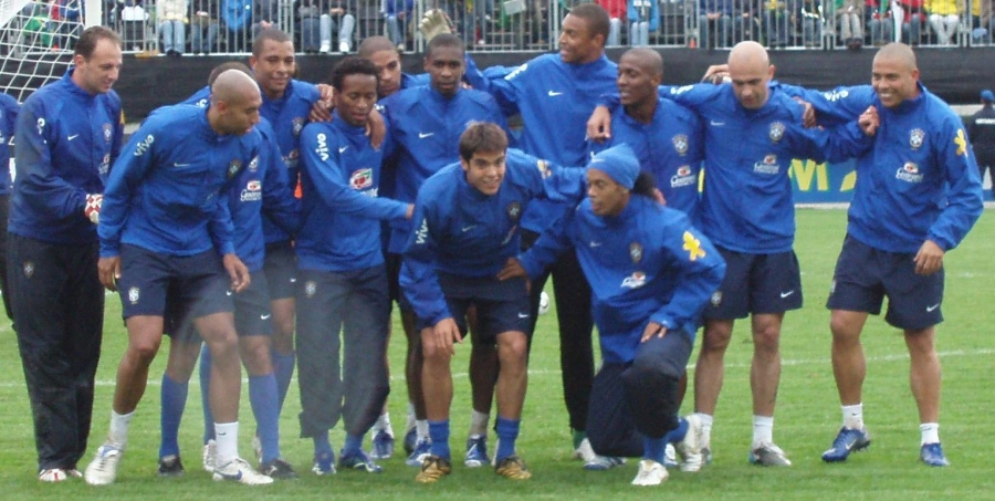 Brasilianische Fußballnationalmannschaft (cropped from original image)